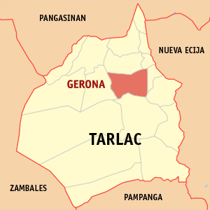 Map of Tarlac showing the location of Gerona